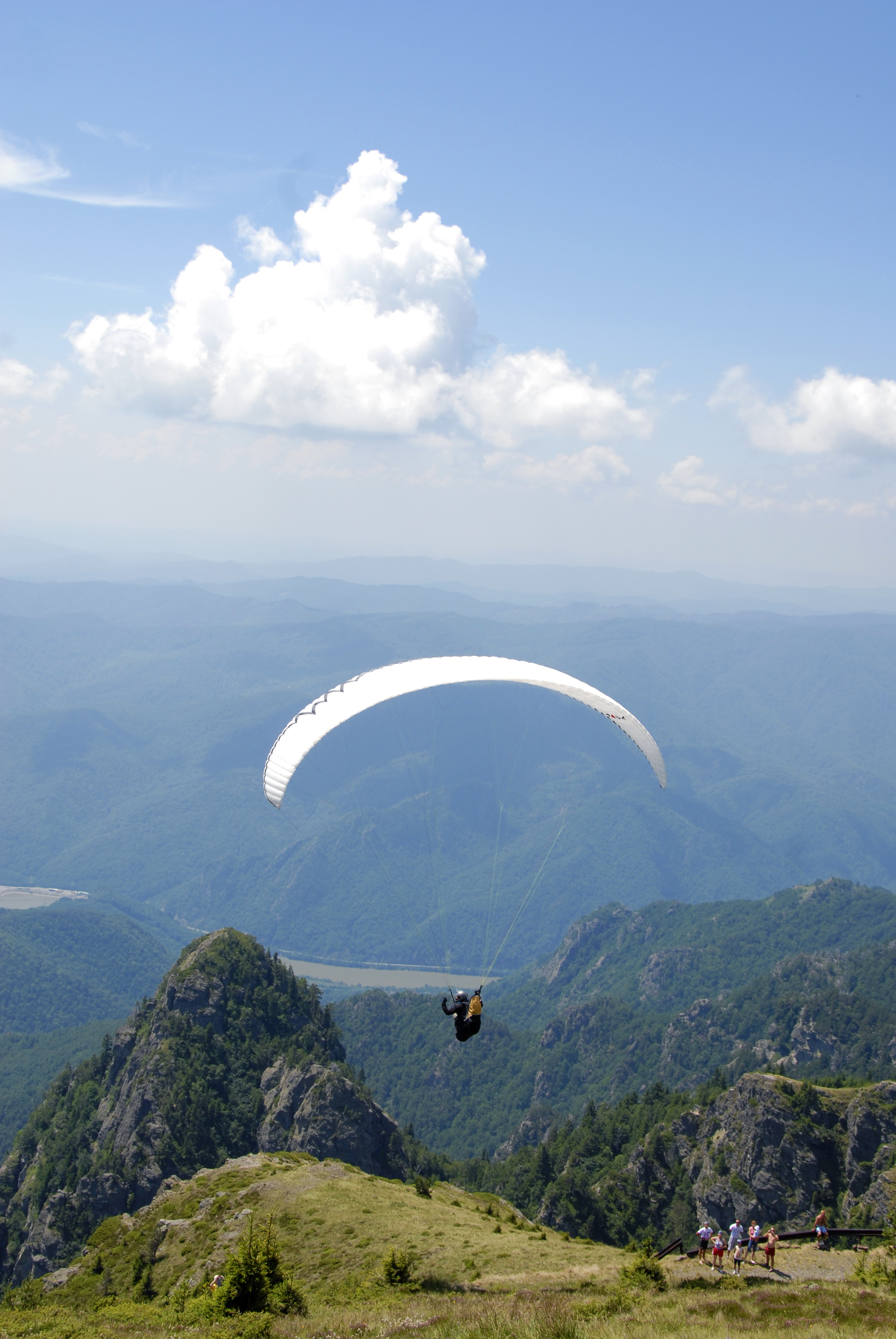 View taken during a paragliding compatition on the top of Cozia Peak, Romania.